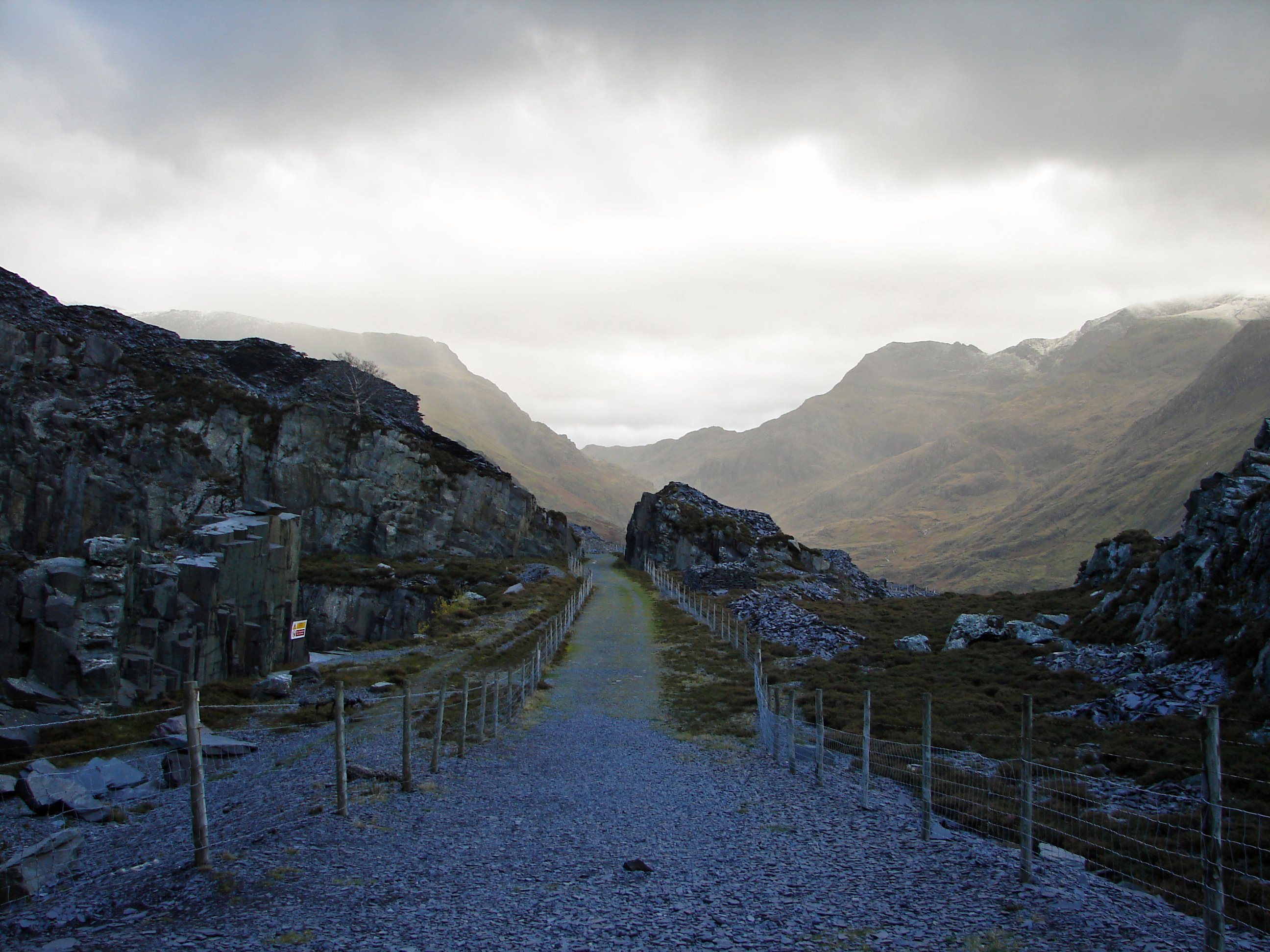 Quarry area near LLanberis in Snowdonia